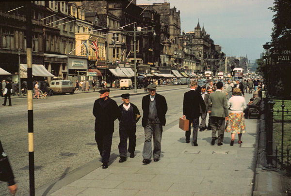 Princes Street, Edinburgh Photographed on a warm sunny afternoon, late in May 1958.